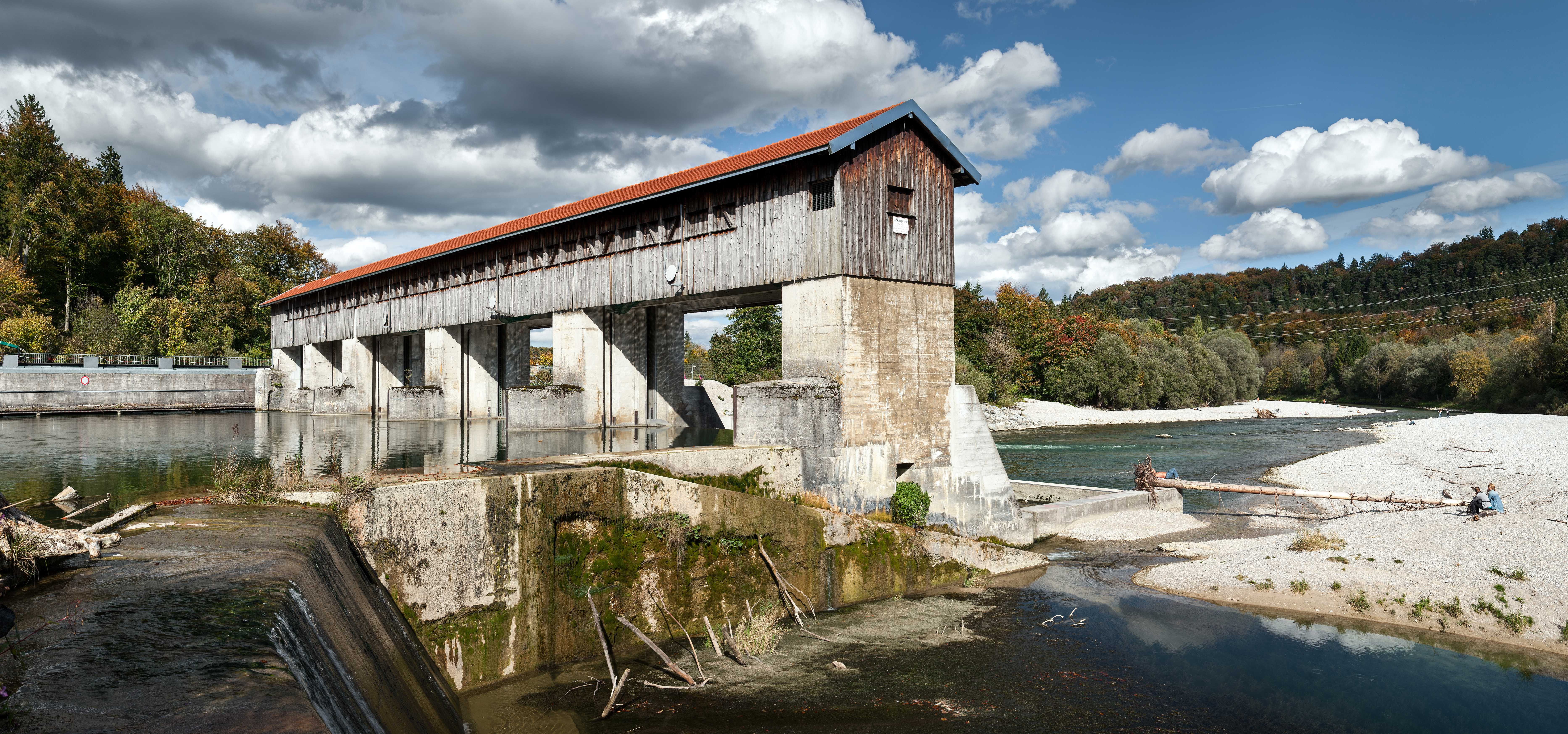 Isarstauwehr Baierbrunn heading Northwest